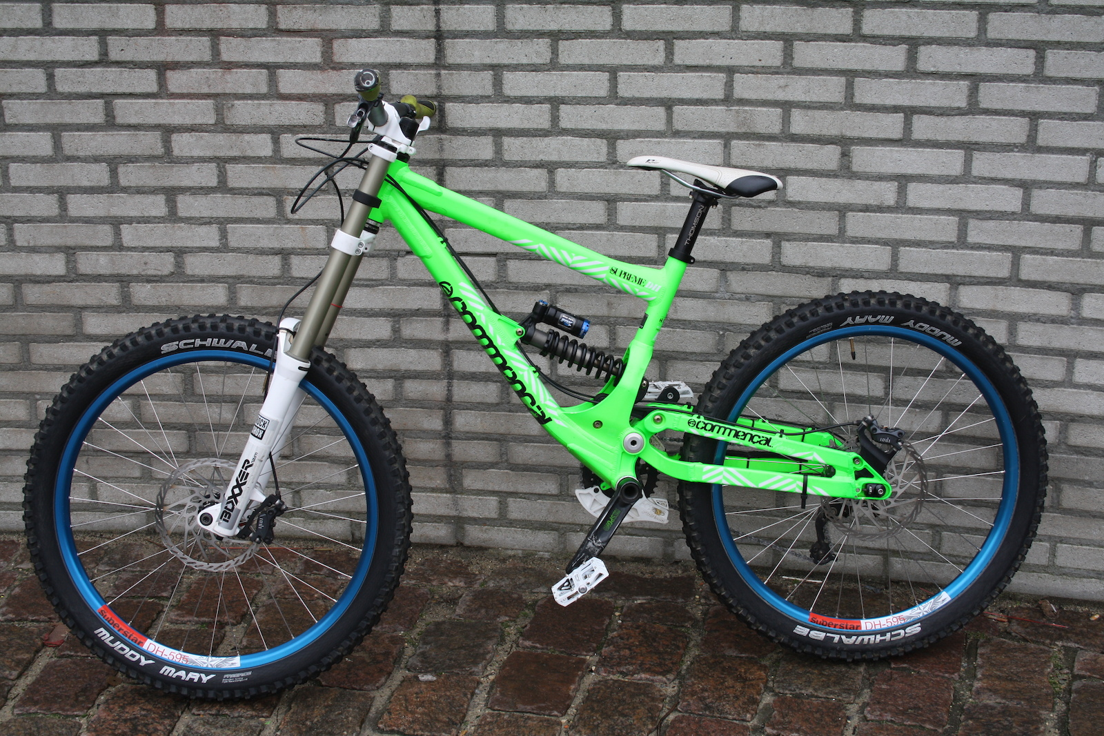 2010 Commencal Supreme DH v2 full suspension downhill mountain bike with 200mm travel in both front and rear. Linkage driven single pivot rear suspension with 2010 Fox DHX RC4 shock. Dual crown telescopic fork in front, namely 2010 RockShox BoXXer Team.